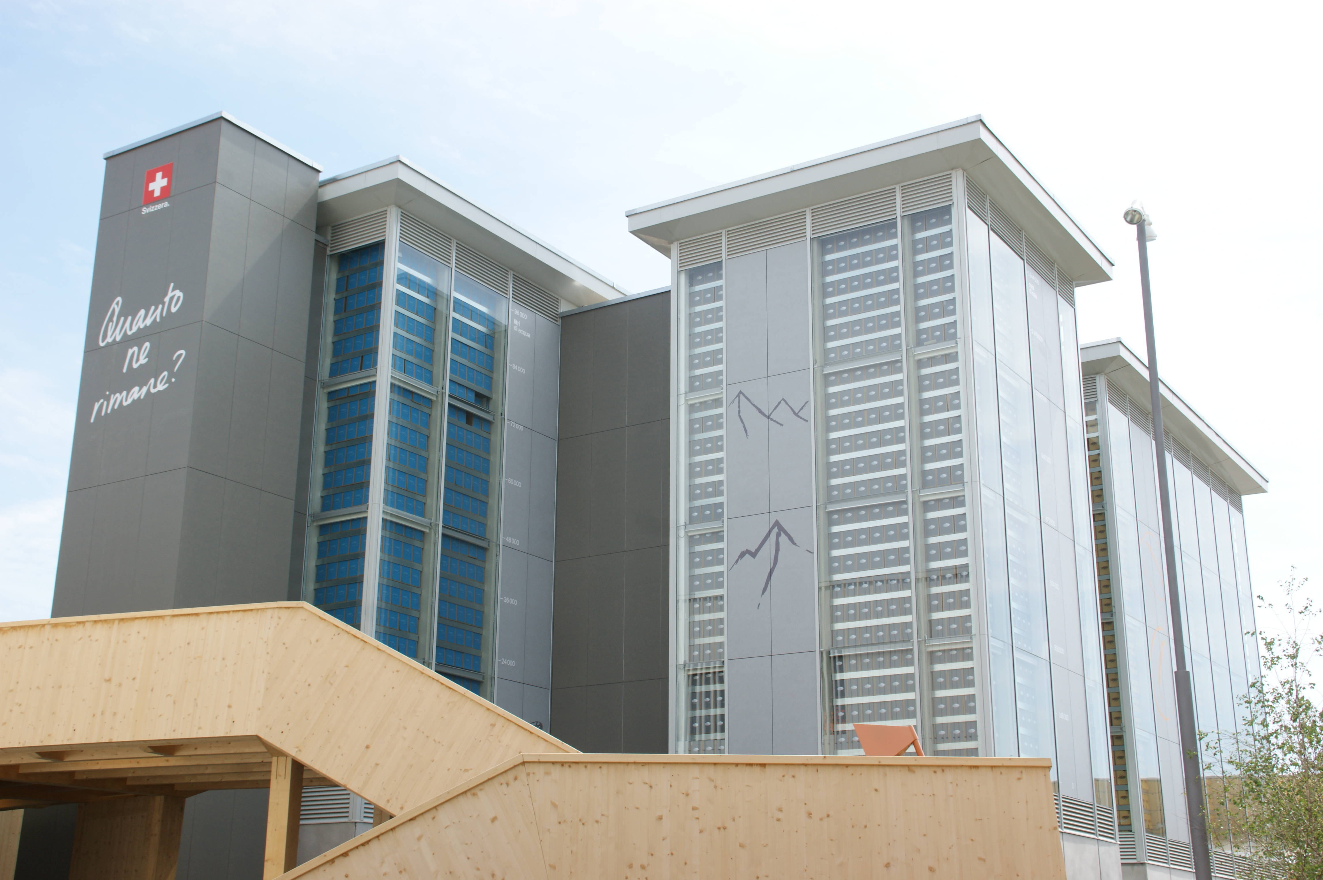 Switzerland Pavilion, Expo 2015, Milan, Italy.